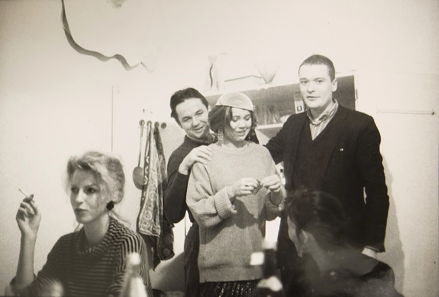 From left to right, Heike-Melba Fendel, Franz Dahlem, Brigitte Schenk, Günther Förg. Kunstmarkt, After Show Party, 1984